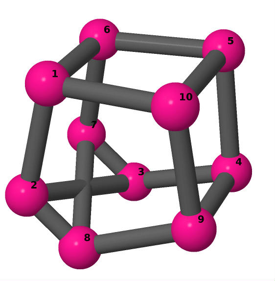 One of 19 simple cubic graphs with 10 vertices.